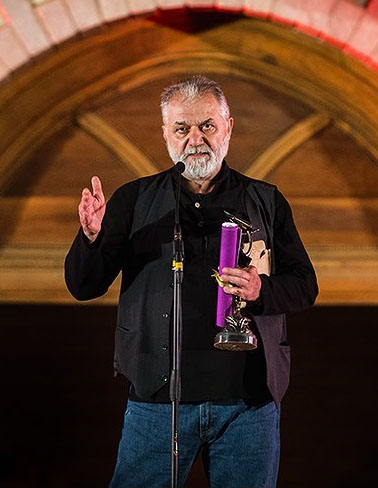 17th Iranian cinema celebration was held in Masoudieh Mansion by Iran's House of Cinema.